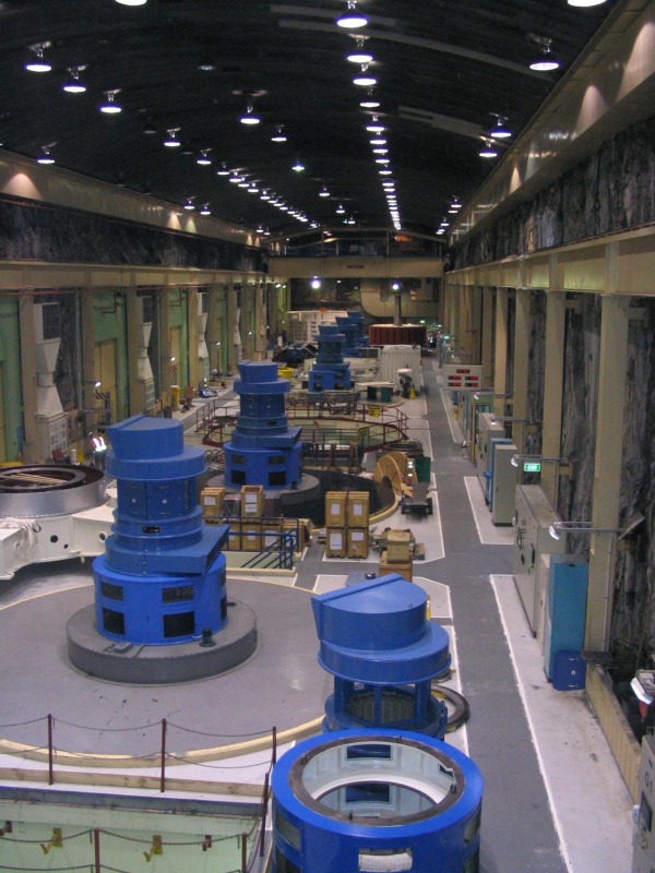 View of Manapouri Powerstation machine hall in February, 2005. You can see the rock sides of the hall between the crane support columns to the left and right. Behind each set of doors on the left are the unit transformers that increase the voltage from 13.2kV to 220kV. Cable shafts extend from the transformers to the switching yard at the surface. In this photo you can see engineers have removed generation-unit number 4 for refurbishment. You can see the hole about halfway down the hall with a temporary safety-fence around it. Various parts of the unit are spread around the hall while the work is being undertaken. You can see the blue excitation unit in the right-hand foreground. The rotor is the brown object mounted on a steel shaft in the distance on the right. The stator is the large white object in the far distance on the left. A new turbine has already been installed. Currently, engineers are installing the windings on the unit 4 stator and rotor. The cardboard boxes in the foreground contain the thousands of new steel laminate sheets used to reconstruct the stator and rotor.